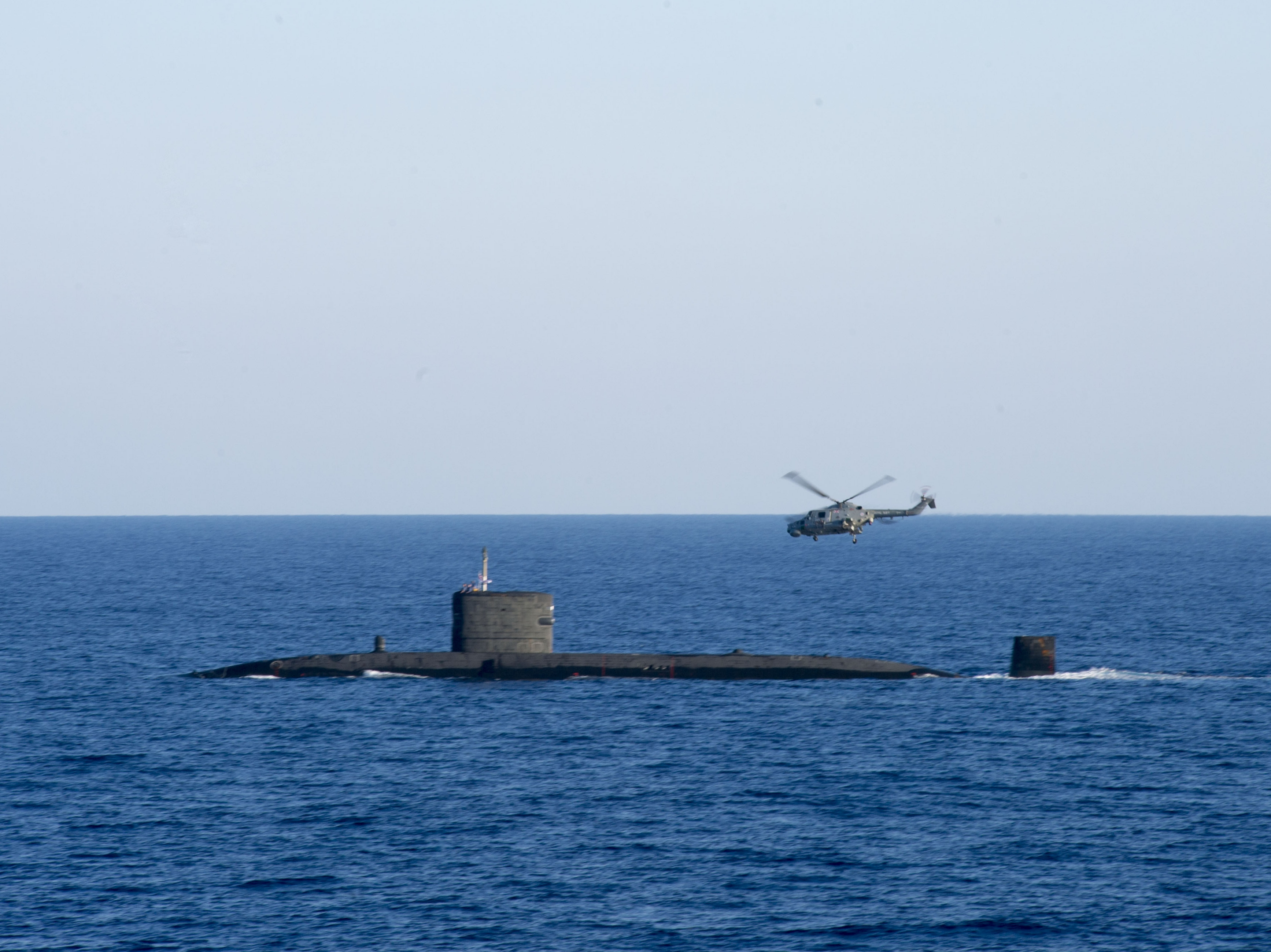 The Royal Navy Trafalgar-class nuclear submarine HMS Talent (S92) participates in a coordinated anti-submarine warfare exercise with a Royal Navy Westland Lynx HMA.8 helicopter in the Mediterranean Sea in October 2013.